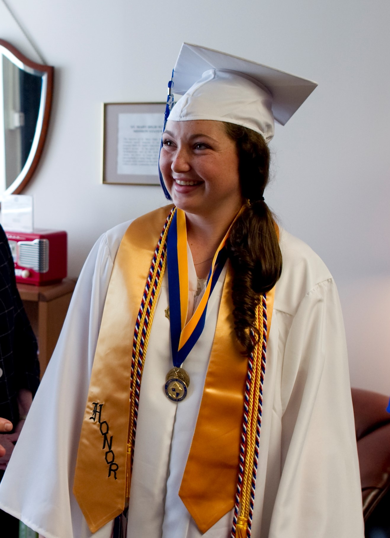 Saint Mary's High School Class of 2010 Valedictorian prior to commencement exercises in Annapolis, Md. on May 27, 2010.